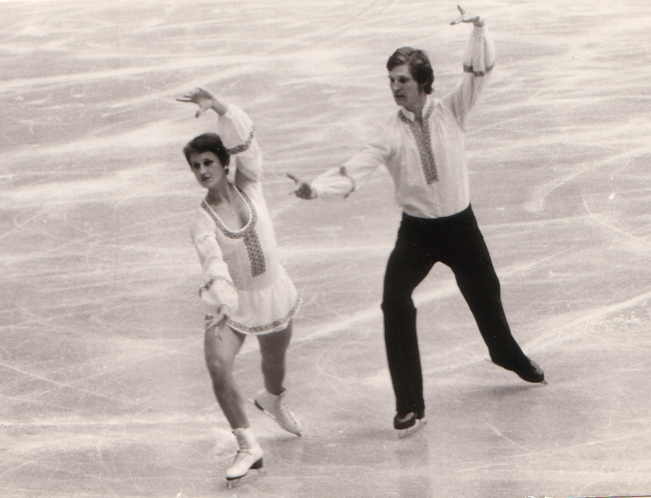 Manuela Groß and Uwe Kagelmann at the ISU-Show 1976 in East-Berlin. Photo was made by Hella Höppner. Permission was granted to publish this here under the selected licence.